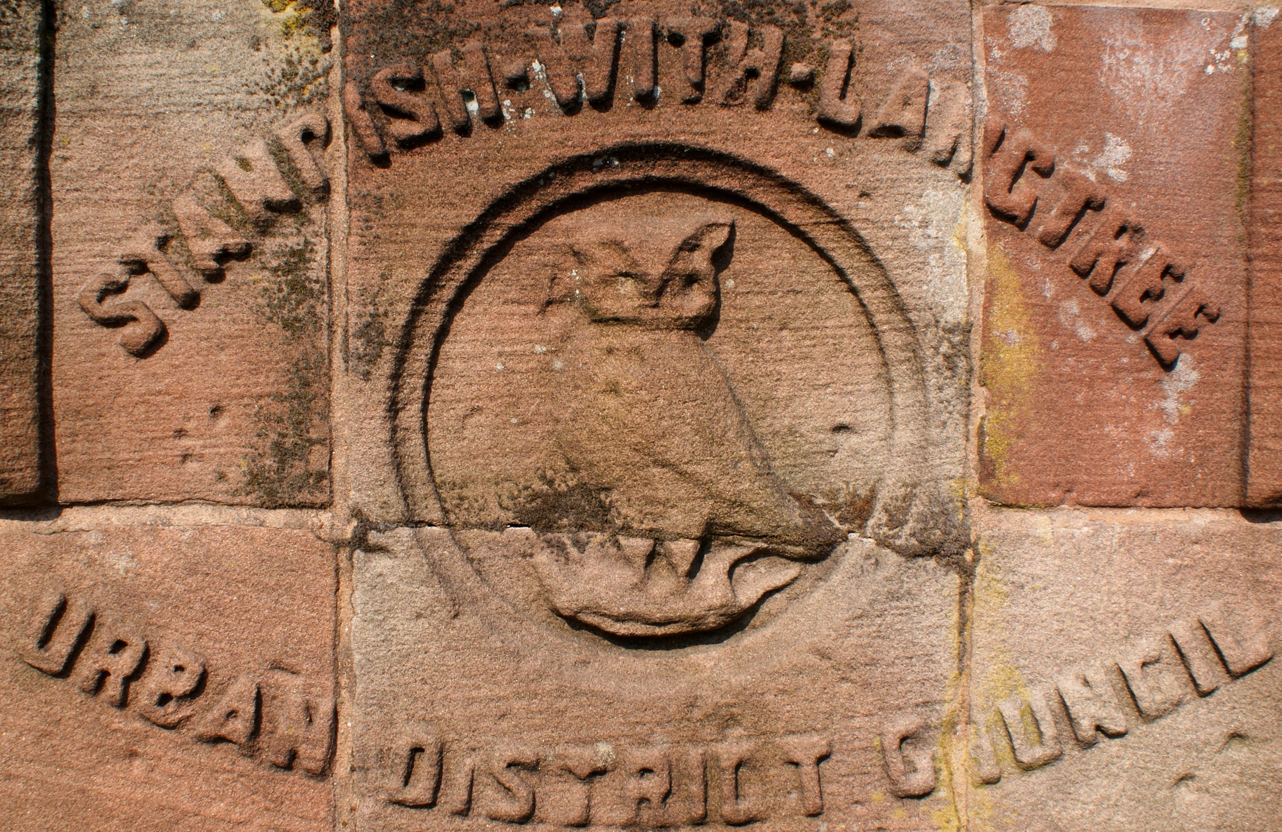 Standish Owl, of the former Standish with Langtree Urban District Council.